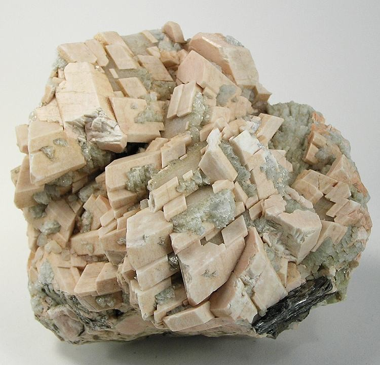 Microcline Locality: Papachacra, Belen Department, Catamarca, Argentina (Locality at ) Size: 9.9 x 9.0 x 5.3 cm. This is a superb microcline specimen from Argentina. The crystals are razor-sharp, and they have a light pastel salmon color (a little deeper in person) that adds to the beauty. You can see a little "snowfall" of albite on some of the crystals. From the collection of Argentine dealer Eduardo Jawerbaum.